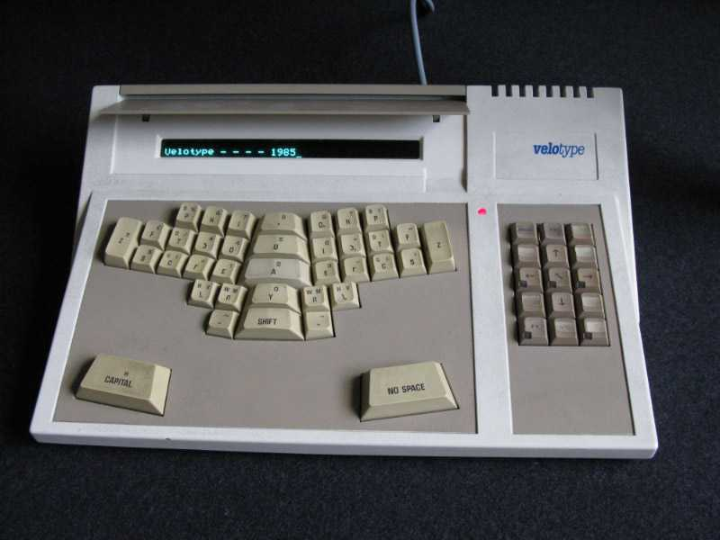 The electronical Velotype as produced in 1985